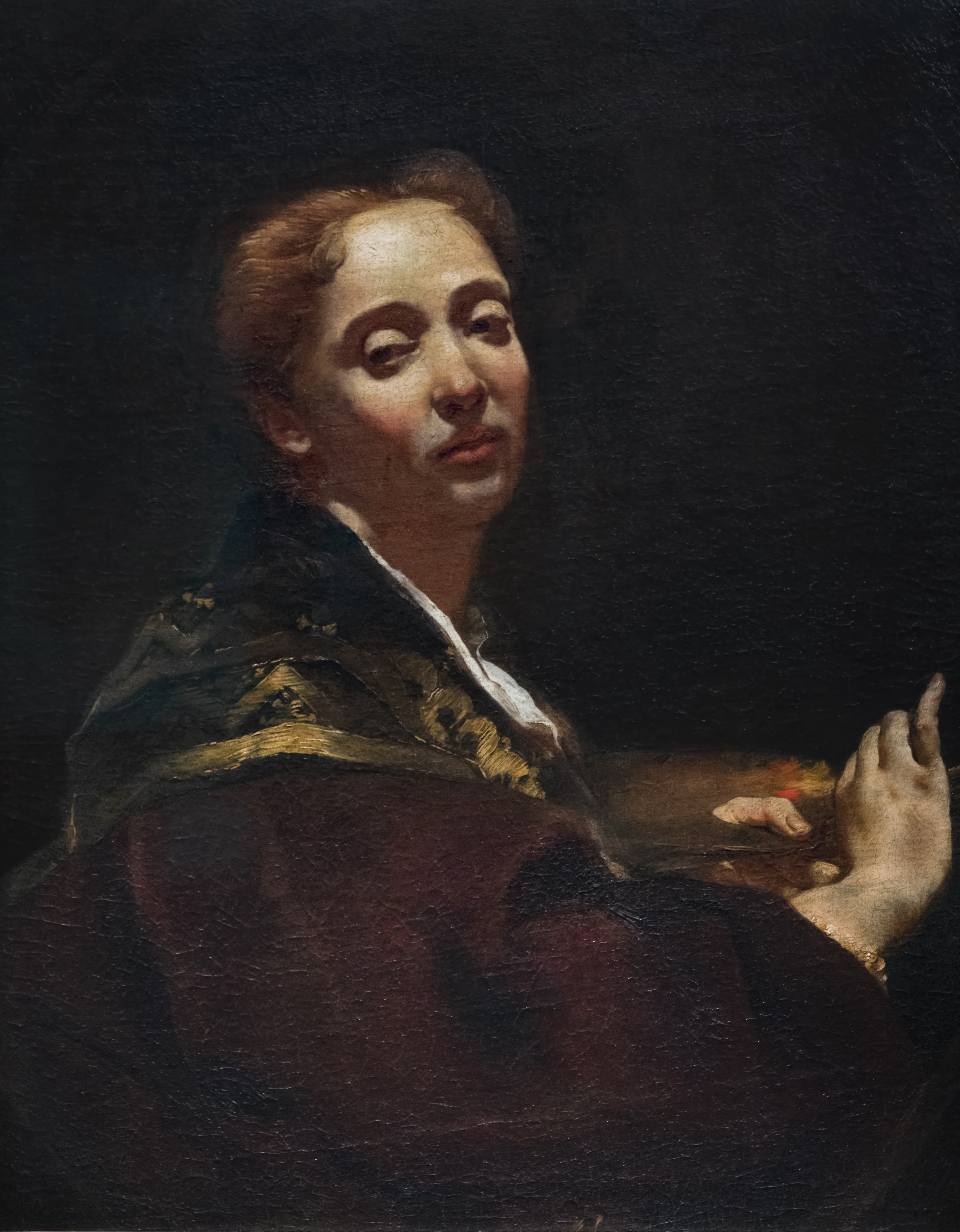 Depicted person: Giulia Lama – Italian painter (1681-1747)